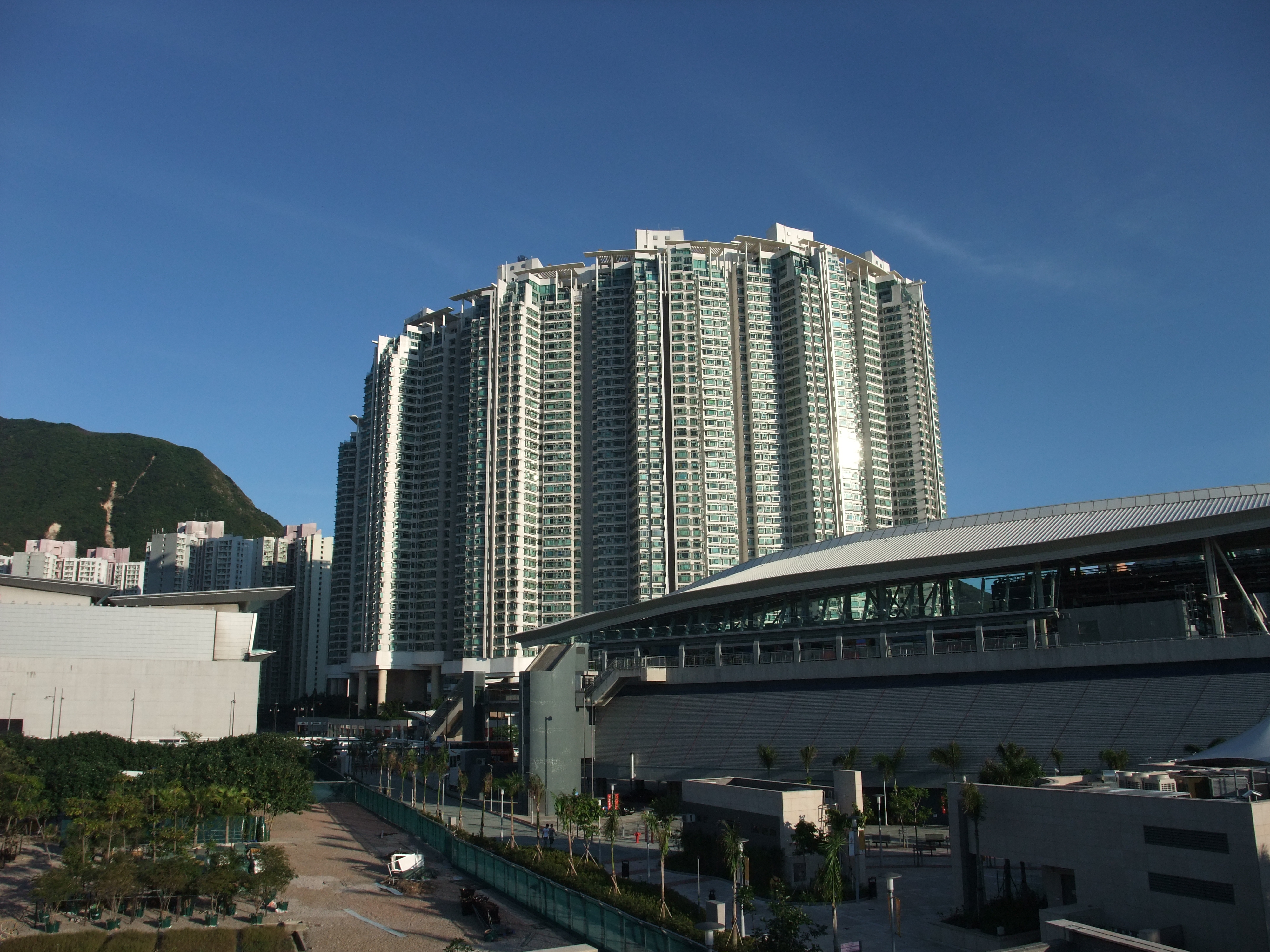 Photo of Tung Chung Crescent